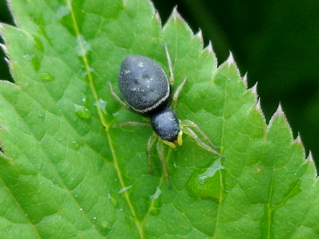 Heliophanus cupreus. Found ir Rīga town, Latvia.